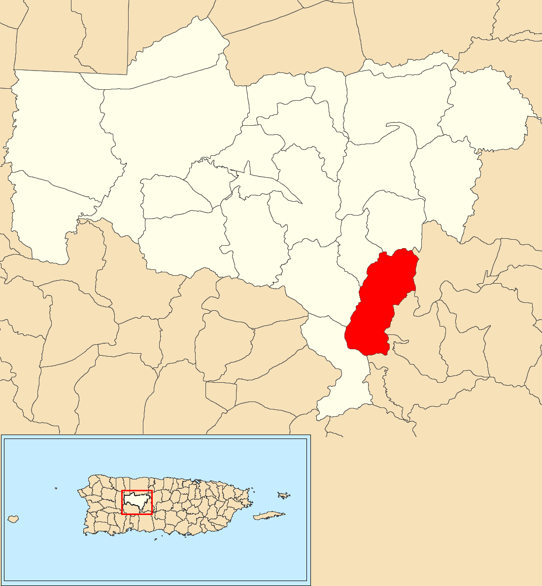 Paso Palma, Utuado, Puerto Rico locator map scale is 102,000